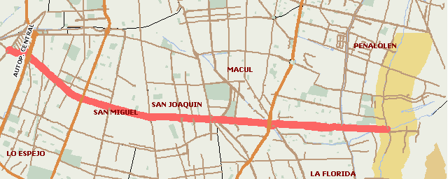 Map of Departamental Av. Santiago, Chile